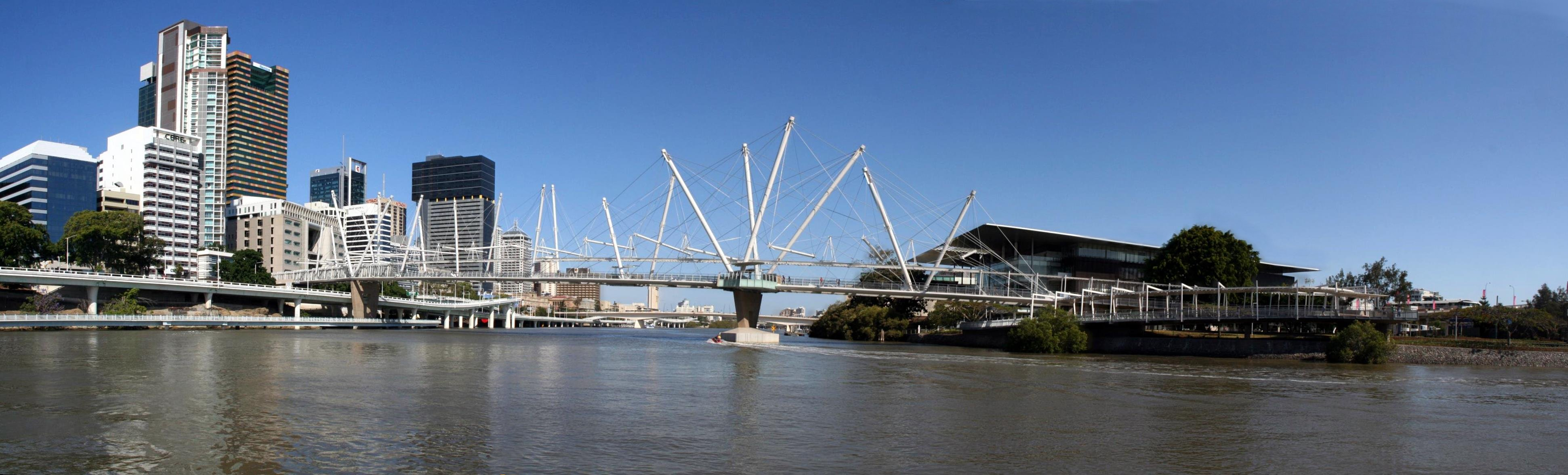 Photographer: Paul Guard